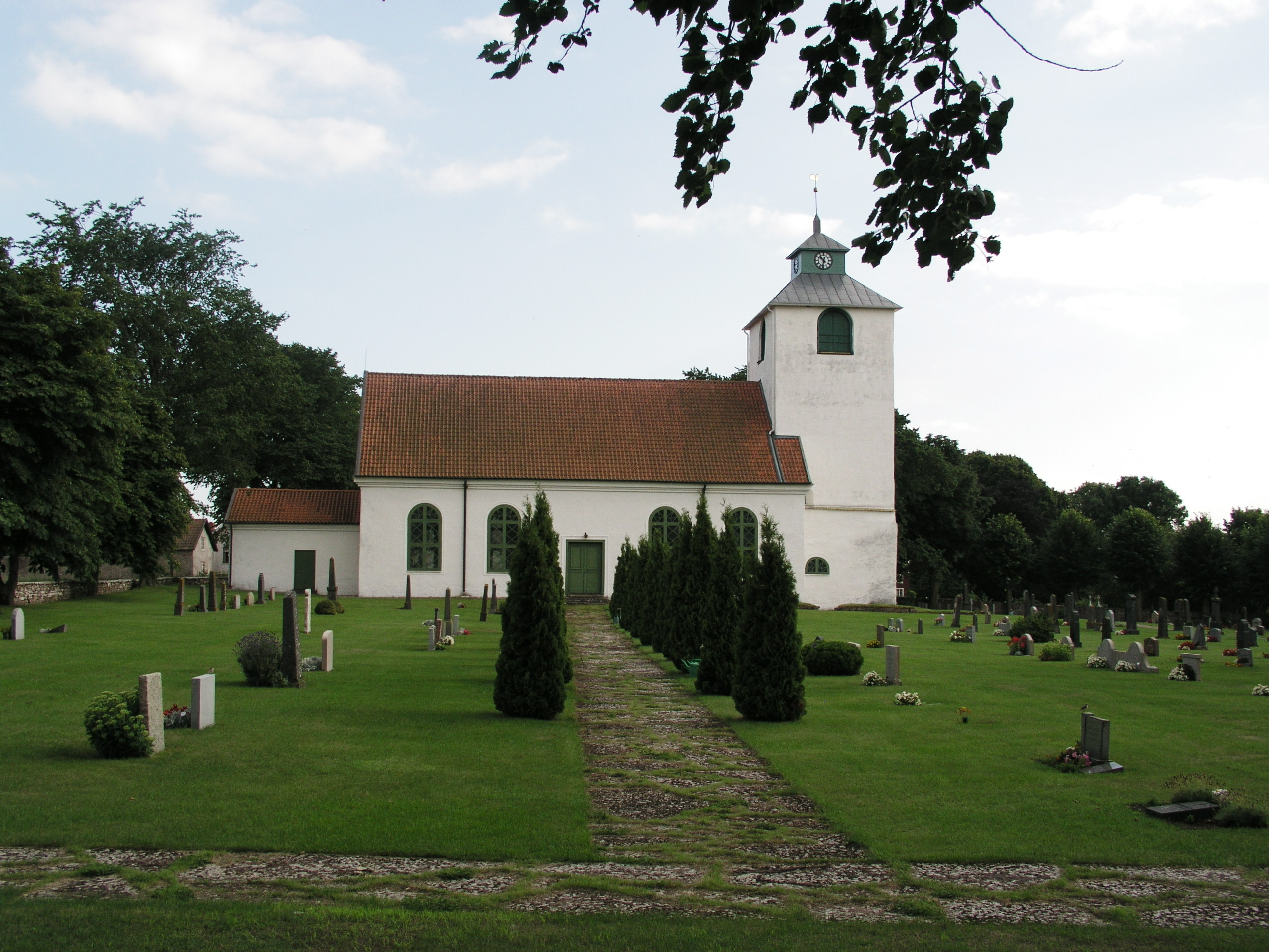 Hulterstads kyrka /church The photo was taken the 2nd of August 2005 by Håkan Svensson (Xauxa)